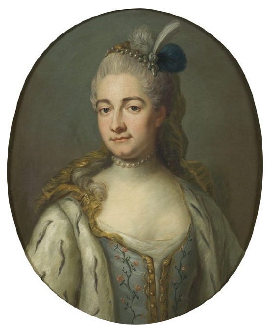 Hedvig Katarina De la Gardie, born 1732, dead 1800